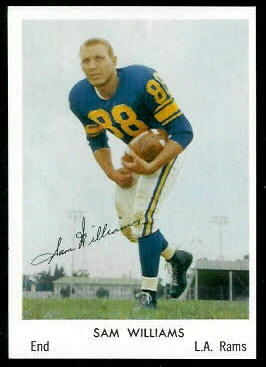 A 1959 promotional image of Los Angeles Rams player Sam Williams.